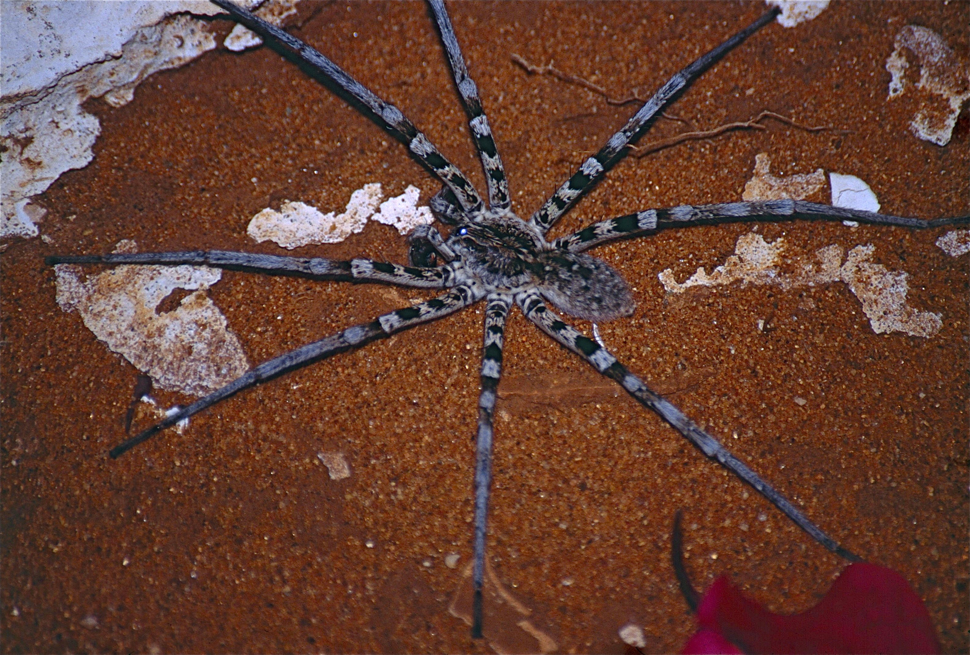 Réserve de Berenty, Amboasary Sud, MADAGASCAR Scanned Slide from 1998